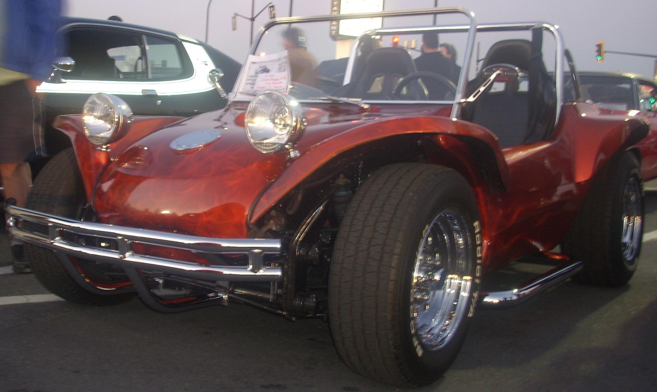 Meyers Manx photographed in Montreal, Quebec, Canada at Gibeau Orange Julep.